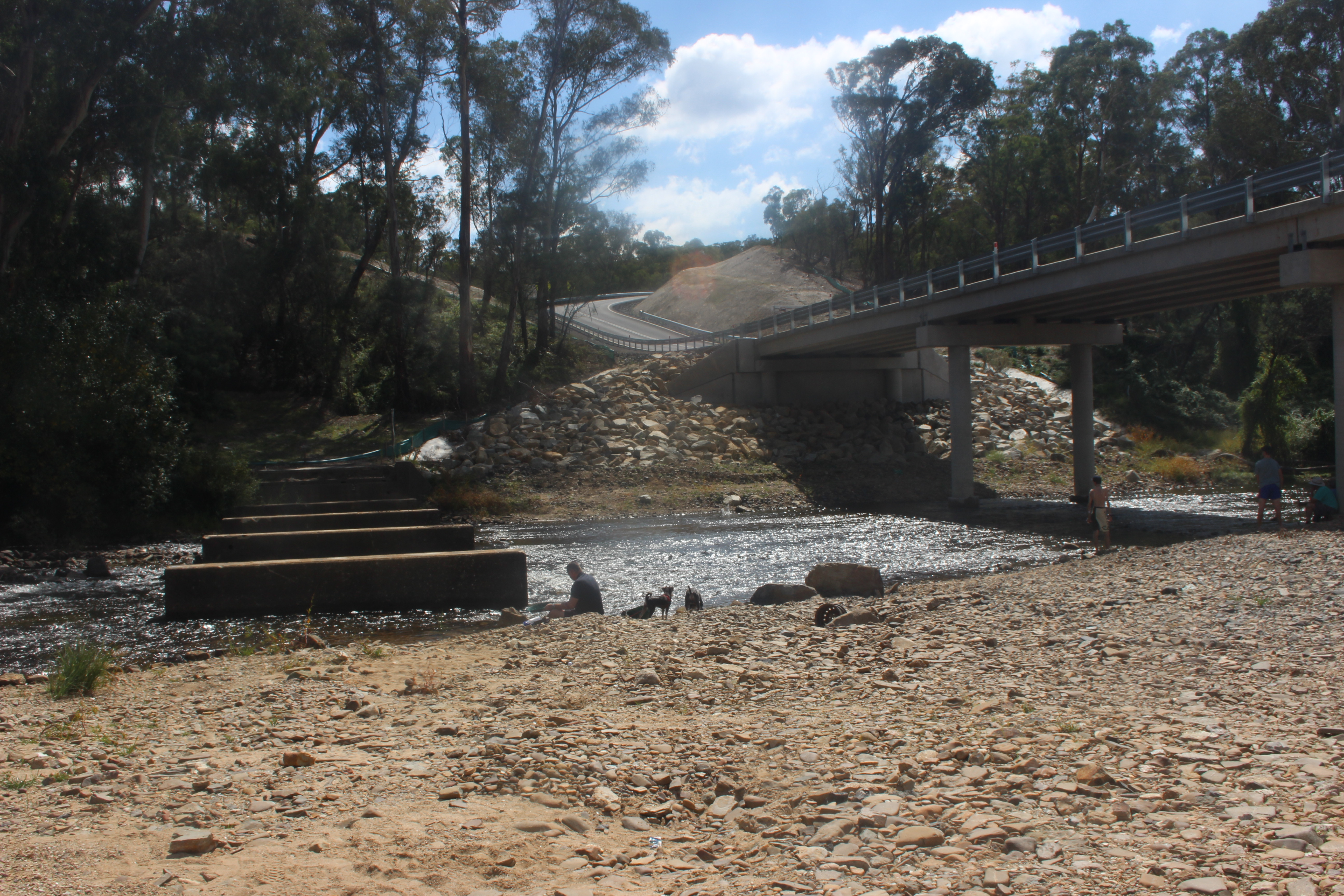 New bridge and piers of old bridge at Oallen Ford, Shoalhaven River